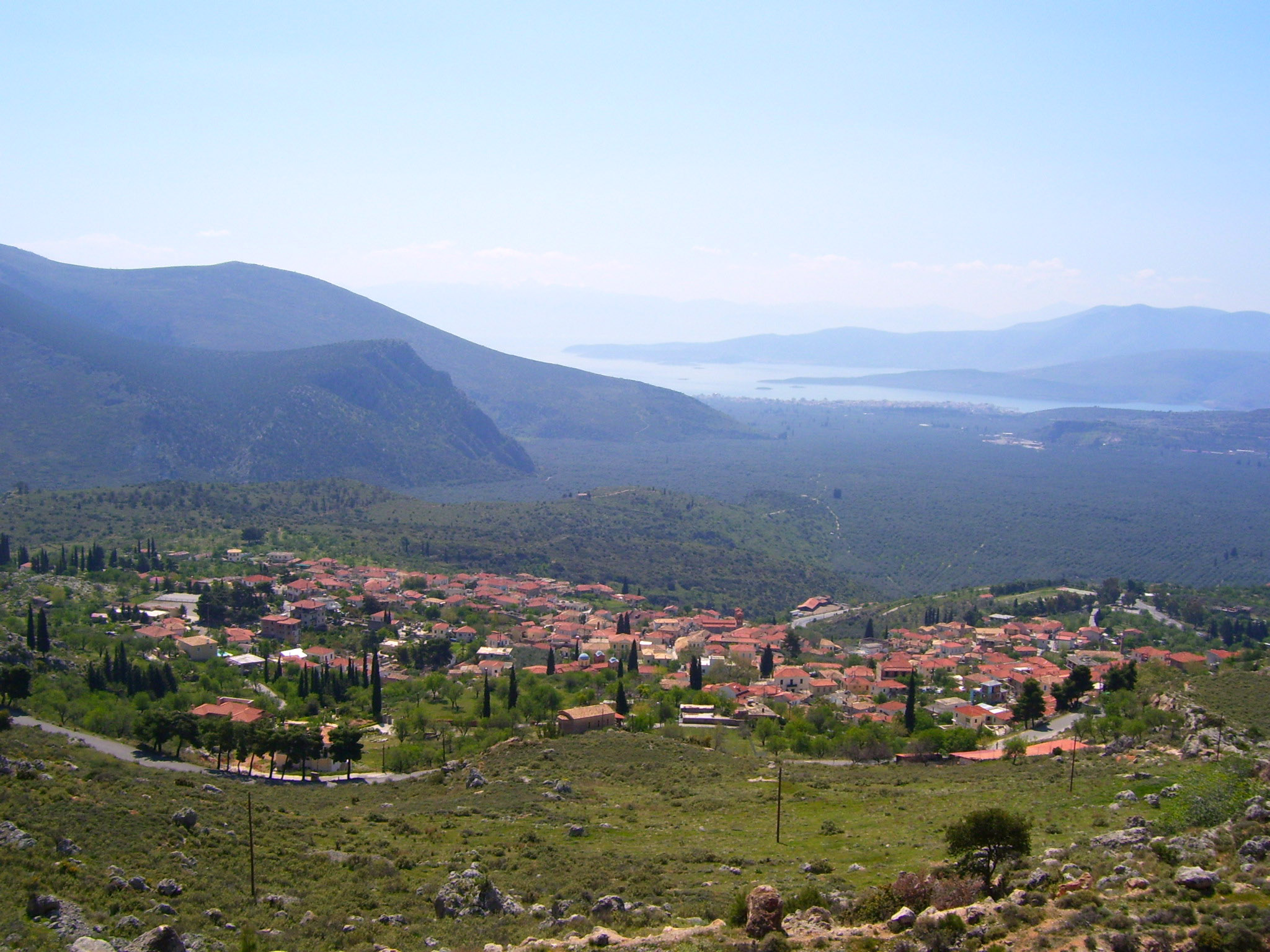 Hrisso village, near Delphi, Phokis